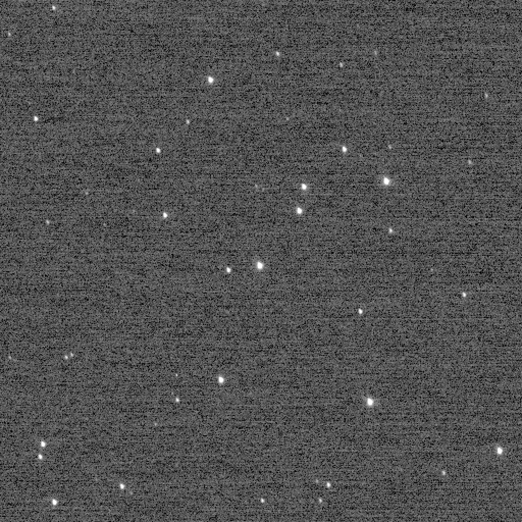 For a short time, this New Horizons Long Range Reconnaissance Imager (LORRI) frame of the "Wishing Well" star cluster, taken Dec. 5, 2017, was the farthest image ever made by a spacecraft, breaking a 27-year record set by Voyager 1. About two hours later, New Horizons later broke the record again.